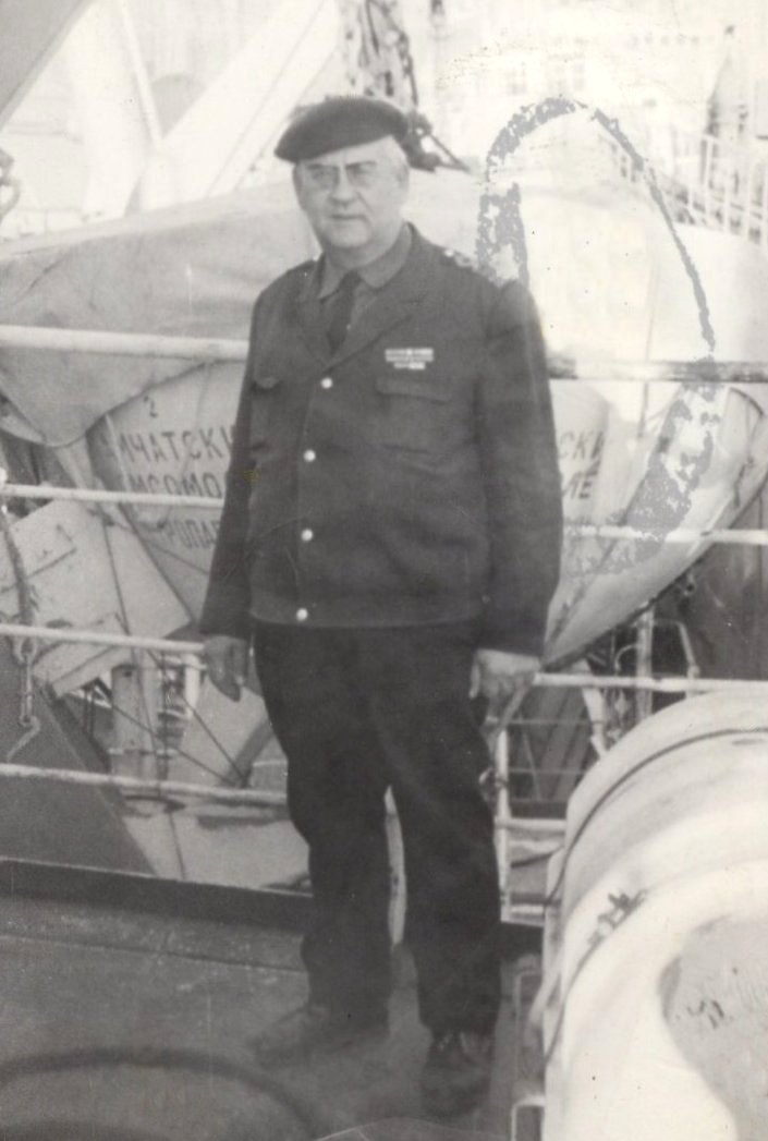 Pavel Kiselev (1914-1996) on board of MV "Kamchatsky Komsomolets". Slavyanka Bay, 1980. An image from family archive, owned by D.Kiselev